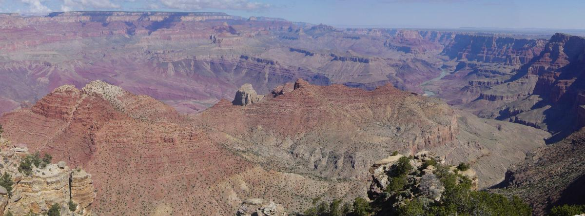 Image of the Grand Canyon from Navajo Point taken on April 9, 2004 by Daniel Mayer. This is a crop of: center|550px